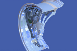 Rim of a car joint by friction stir welding